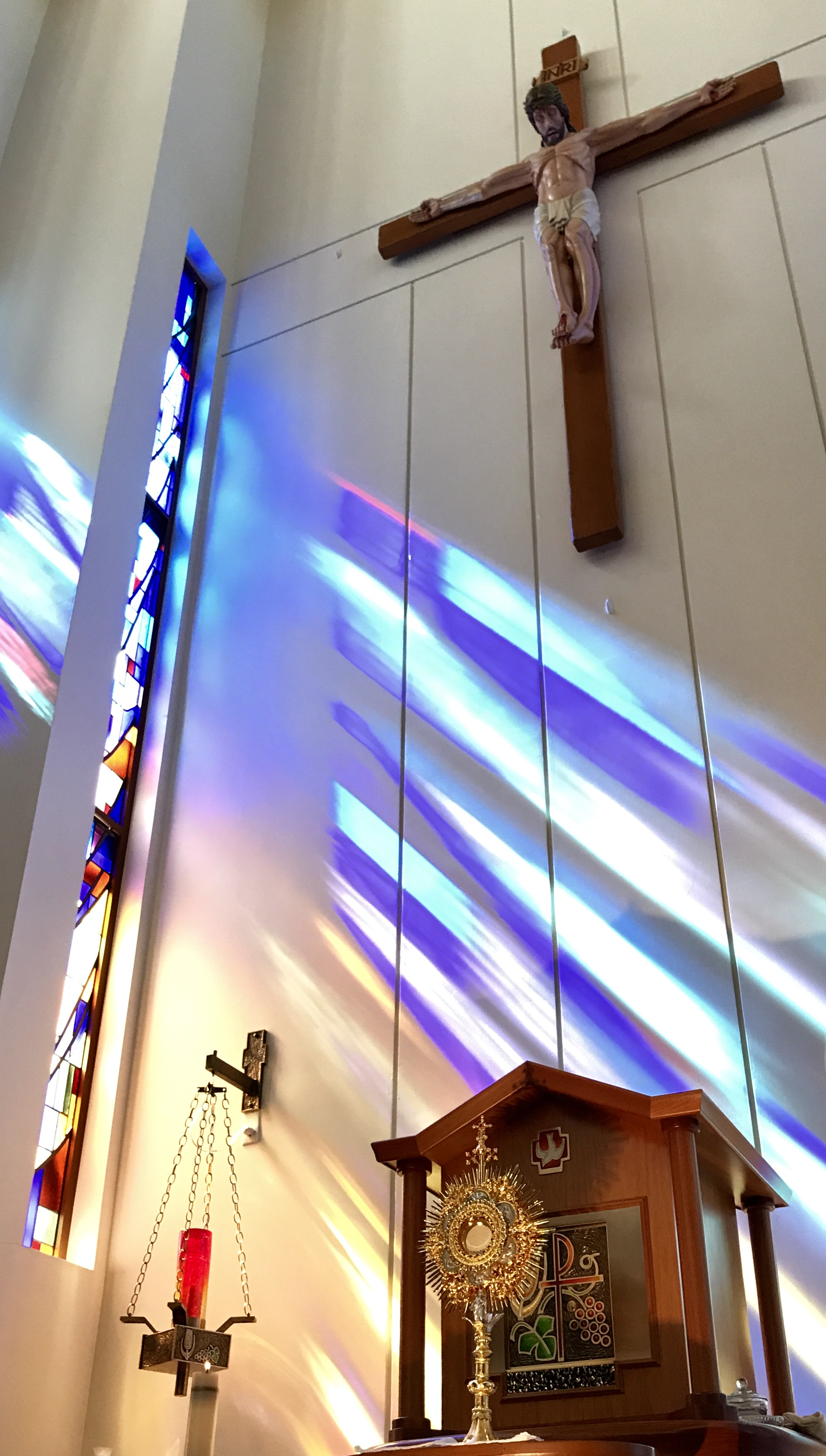 South window IC Sparks